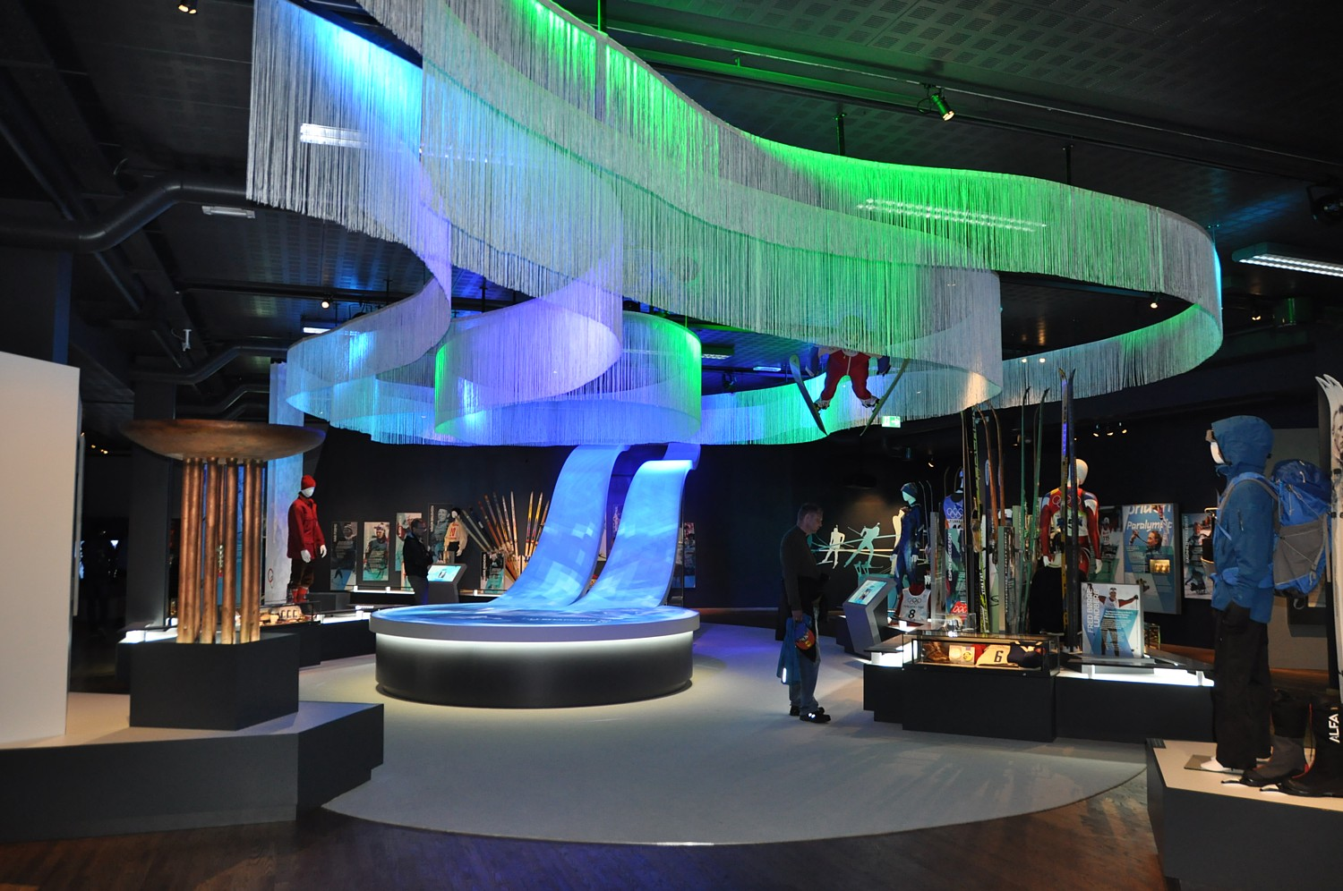 Norwegian Olympic Museum Lillehammer, July 2016